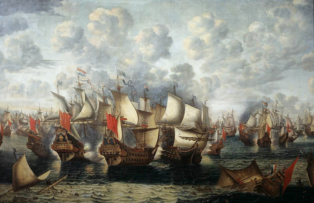 The first phase of the Battle of the Soundlabel QS:Len,"The first phase of the Battle of the Sound"